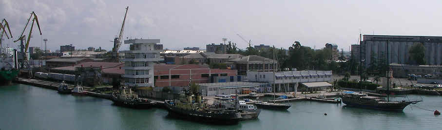 south part of port of Poti Georgia